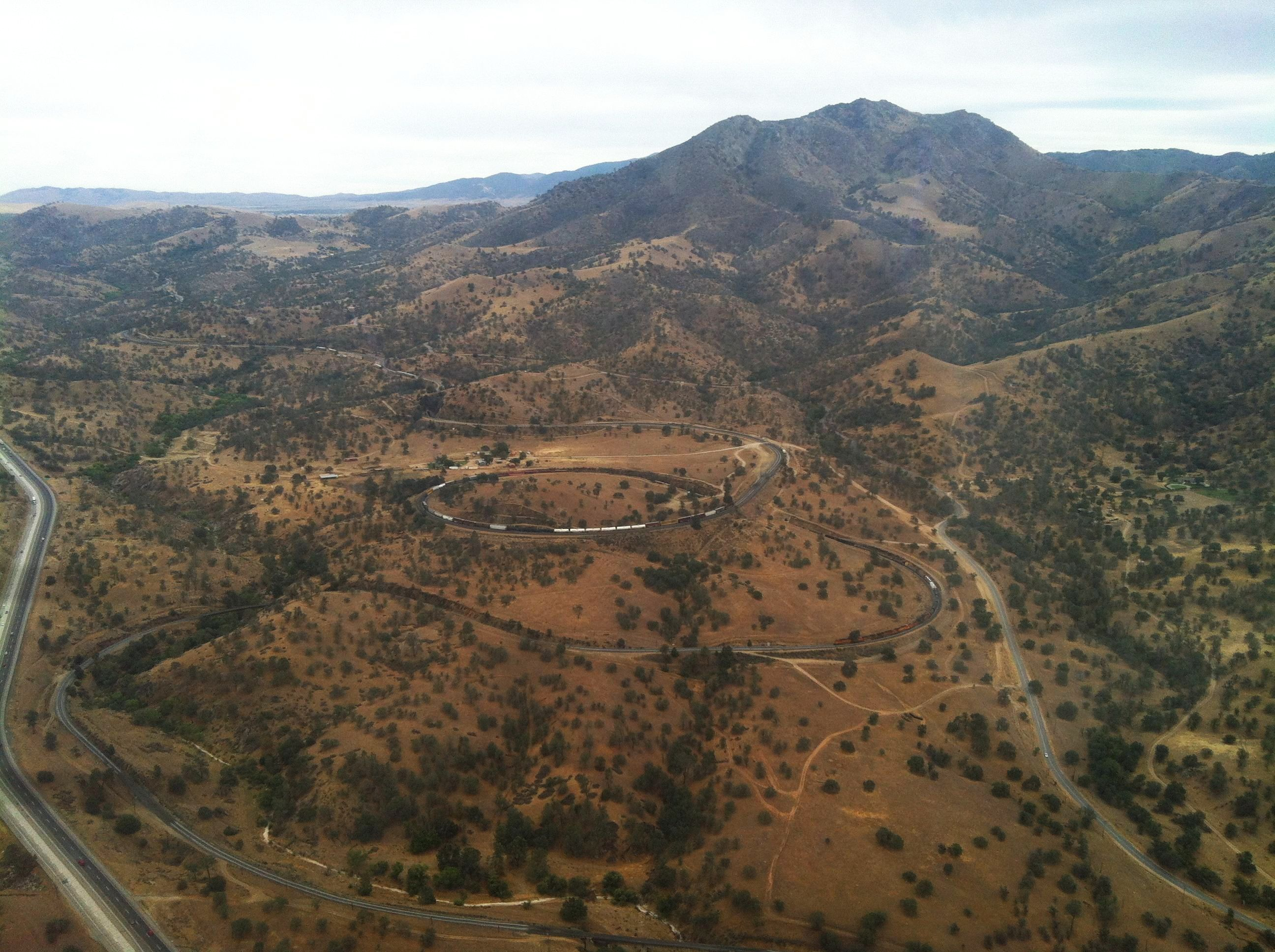 Tehachapi Loop seen from North, June 2013, by bavareze